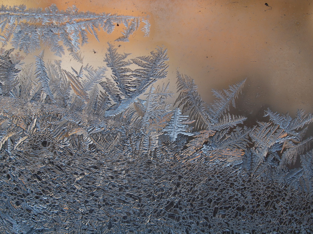 close-up of a frost pattern